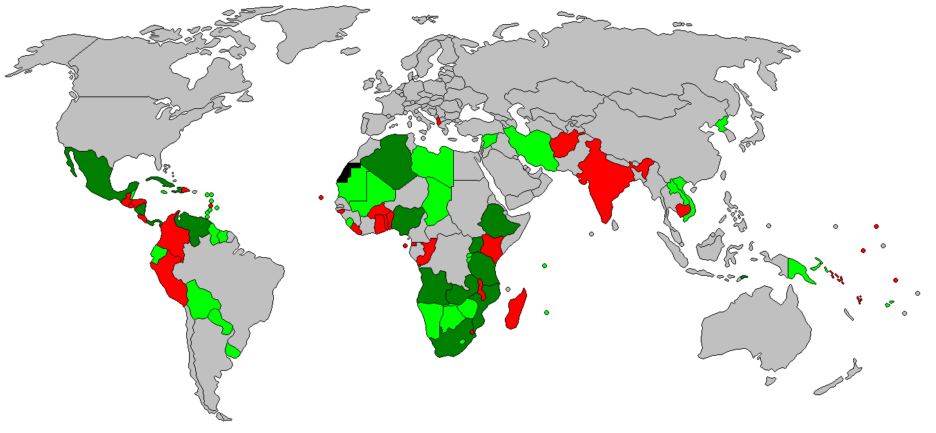 Countries maintaining diplomatic relations with the SADR